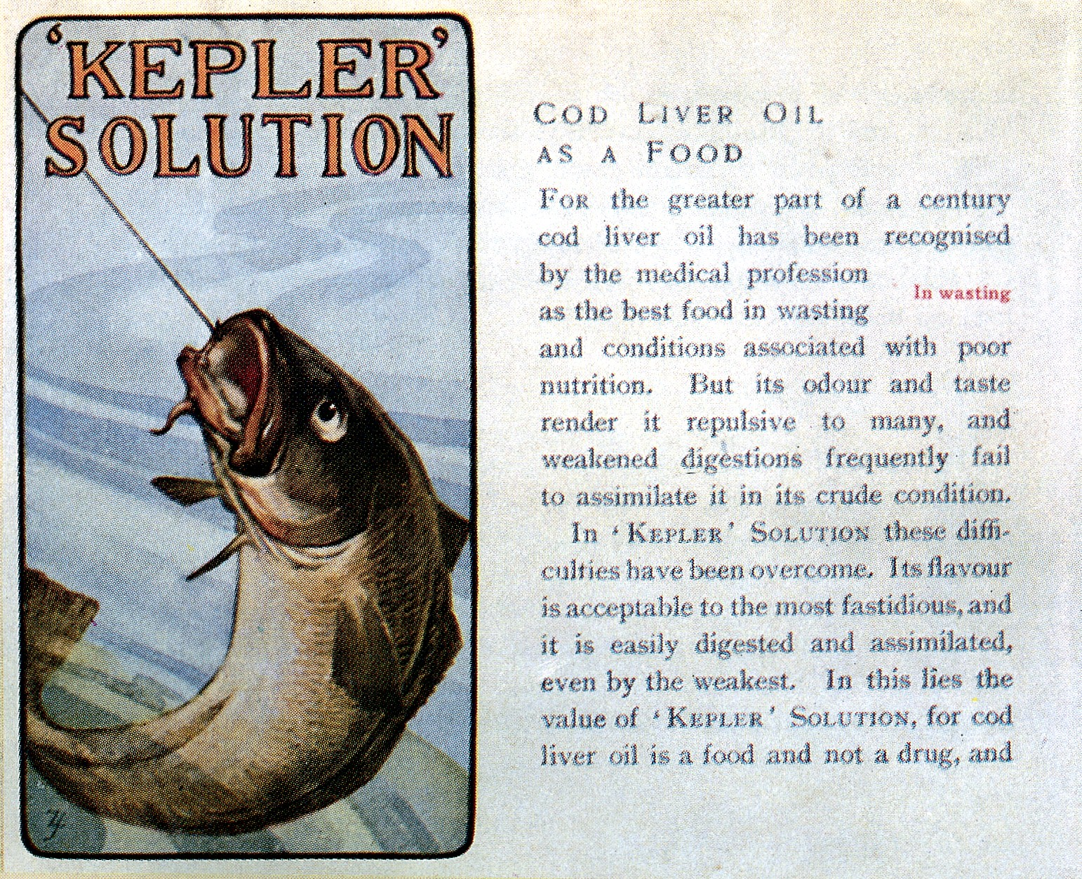 Robert Rhodes James, Henry Wellcome, Hodder and Stoughton: London, 1994. "Kepler" Solution. Advertisement for Cod Liver Oil. Iconographic Collections